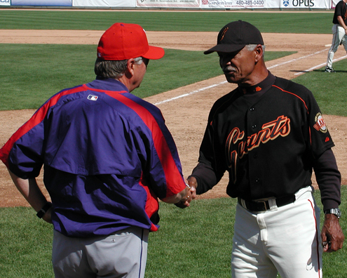 Giants Spring Training 2005